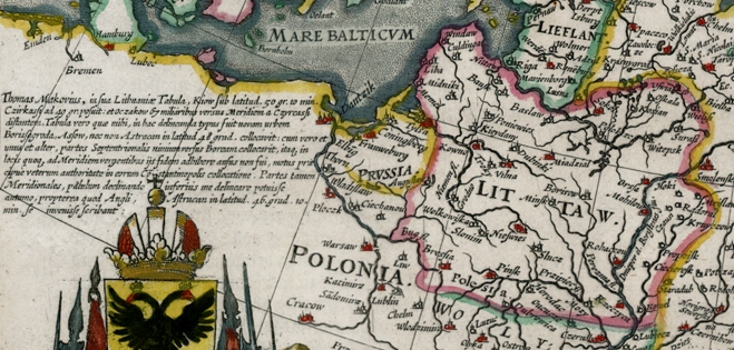 Willem Janszoon Blaeu: Tabula Russiae ex autographo, quod delineandum curavit Foedor filius Tzaris Borois desumta …. MDCXIIII A gorgeous example of Hessel Gerritsz's map of Russia, with the large inset of Moscow and plan of Archangelsckagoroda. Hessel Gerritsz's map of Russia, first issued 1613, was published by Blaeu after he acquired the plate following Gerritsz's death in 1632. The top left corner has an inset plan of Moscow with a 17-point key. On the right is a prospect of Archangel, Russia's only northern port until the founding of St Petersburg in 1700. Three figures in Russian dress stand above. The title is within a martial cartouche. The map was compiled from manuscript maps and work brought back by Isaac Massa. The inset plan of Moscow has been attributed to the Crown Prince Fydor Gudonov.